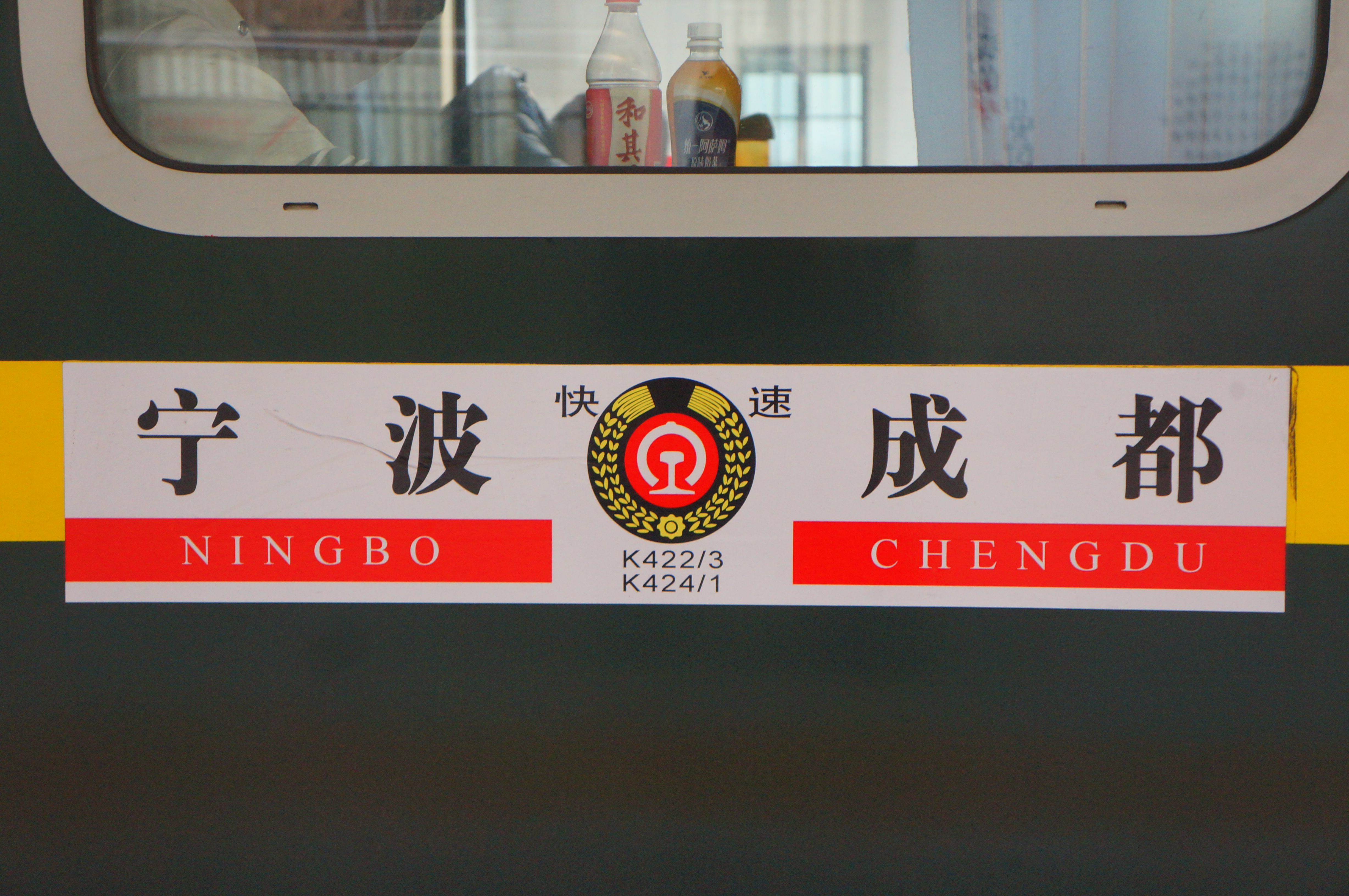 K421 2 3 4 infoboard in 201712